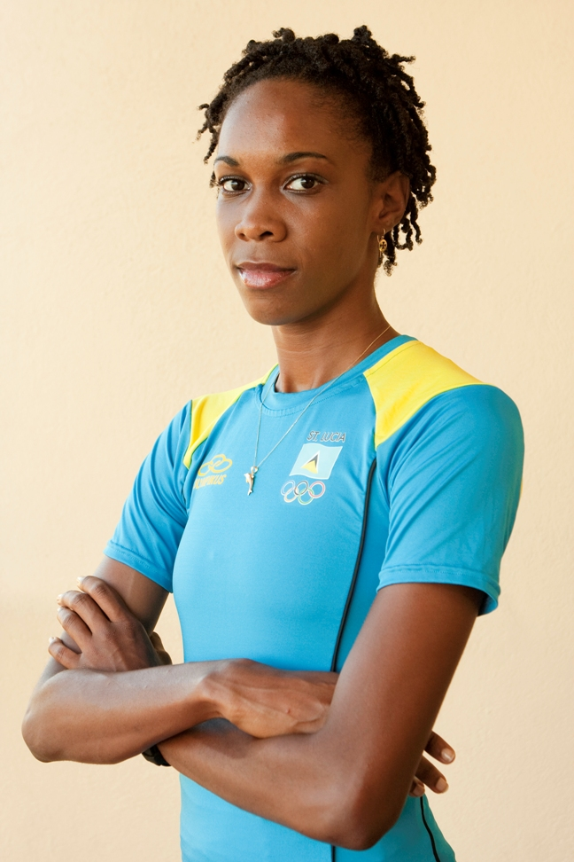 Levern Spencer - Terry Finisterre - Chris Huxley 2009